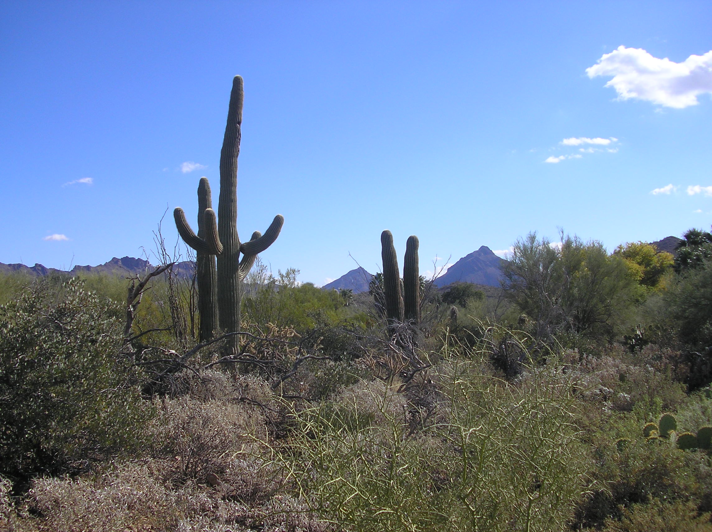 taken at the Arizona-Sonora Desert Museum